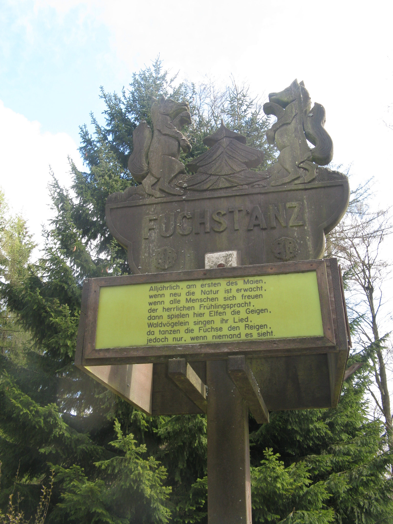 Fuchstanz (meeting point "fox dance") Taunus/Germany